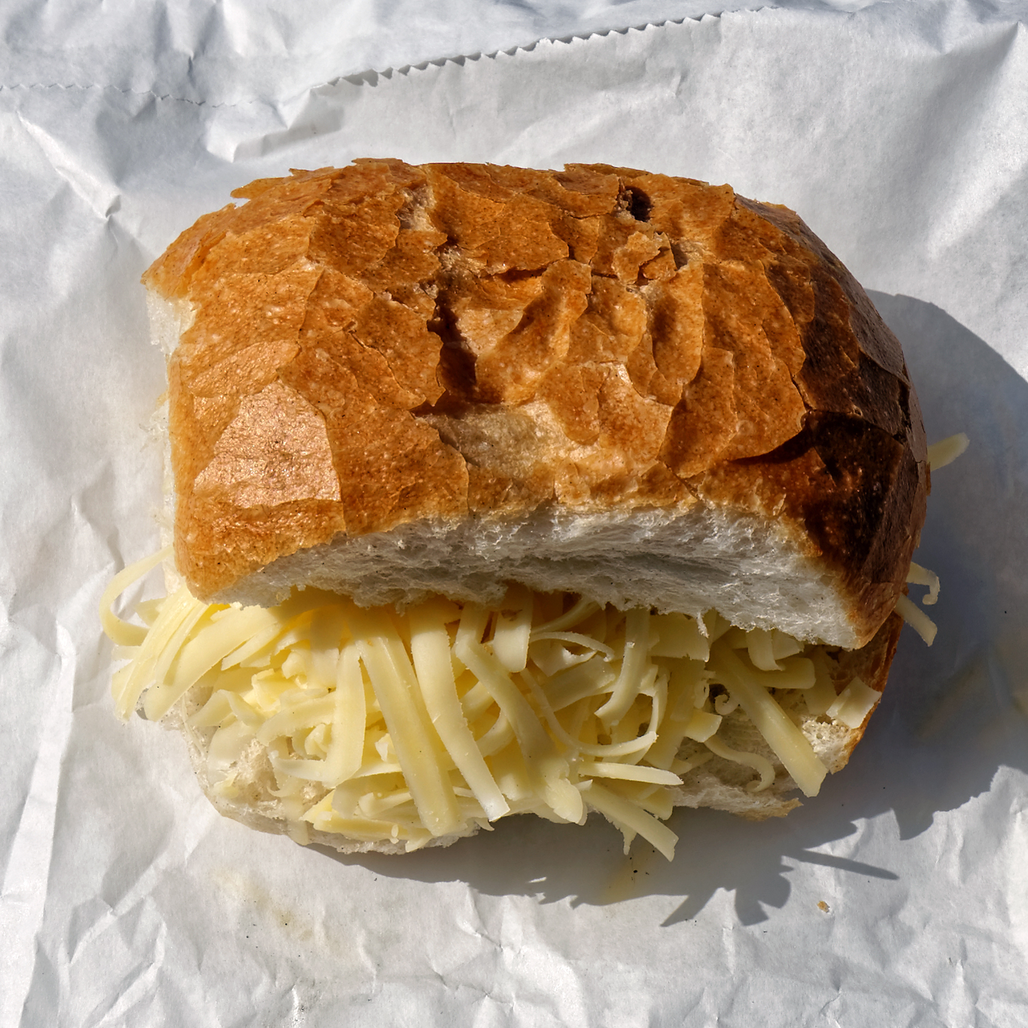 A crusty roll filled with grated cheese, from The Original Tea Hut (sometimes 'Bradley's Tea Hut', and formerly 'Mins Tea Hut' and later 'Bert's Tea Hut'), dating to 1930, at the junction of Cross Roads and Fairmead Road in High Beach (alternatively High Beech) in Epping Forest and the civil parish of Waltham Abbey, Essex, England.Camera: Canon EOS 6D with Canon EF 24-105mm F4L IS USM lens.Software: RAW file lens-corrected, optimized and converted with DxO OpticsPro 11 Elite, and further optimized with Adobe Photoshop CS2.